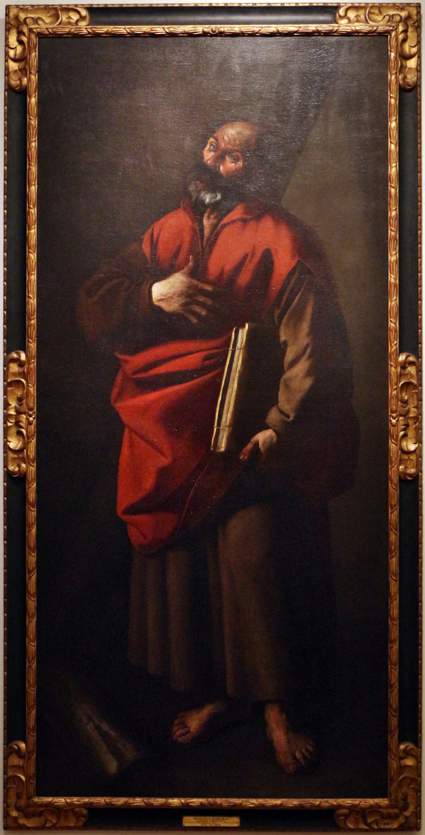 Spanish paintings in the Museu Nacional de Arte Antiga